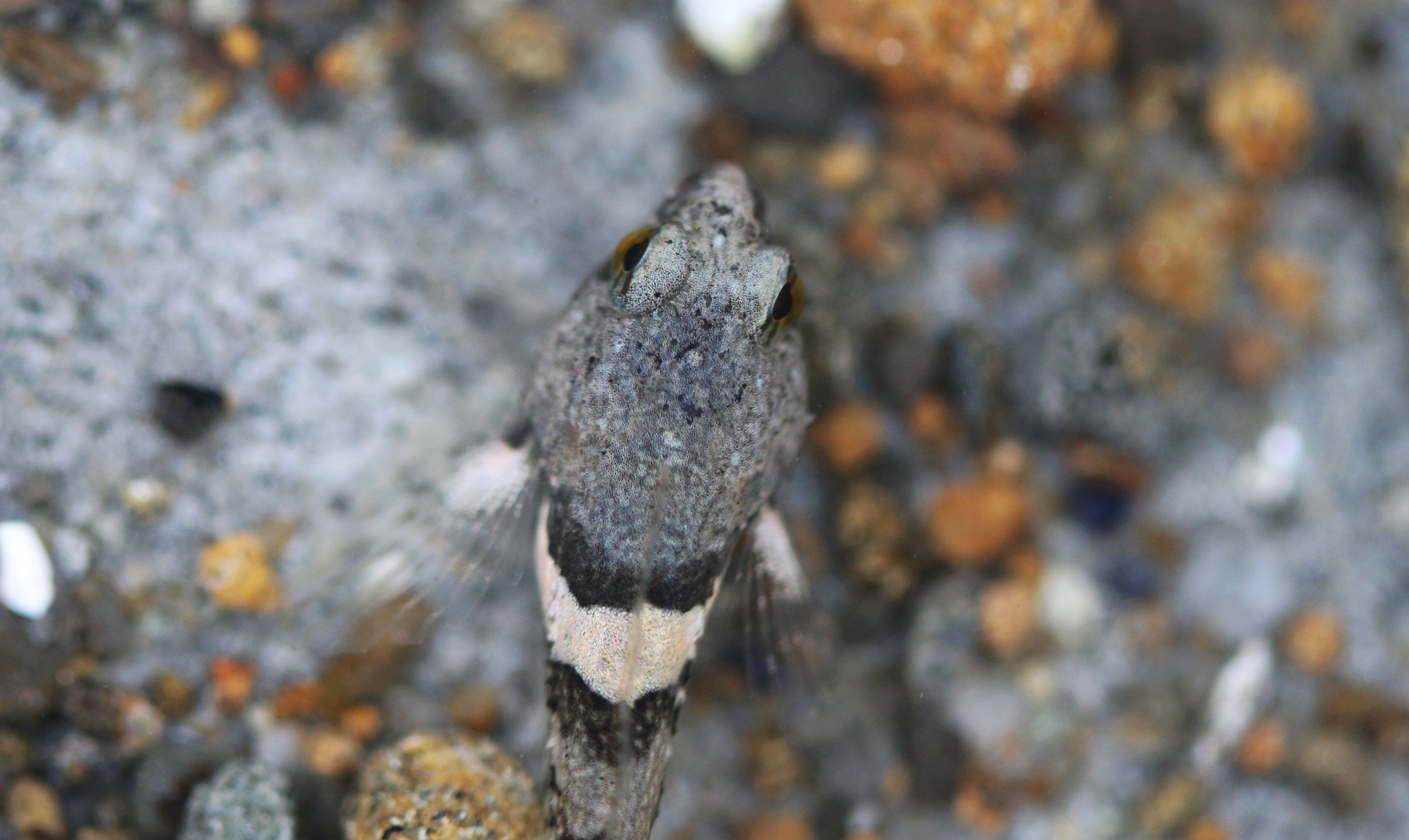 Tidepool sculpin (Oligocottus maculosus) You are free to use this image with the following photo credit: Peter Pearsall/U.S. Fish and Wildlife Service